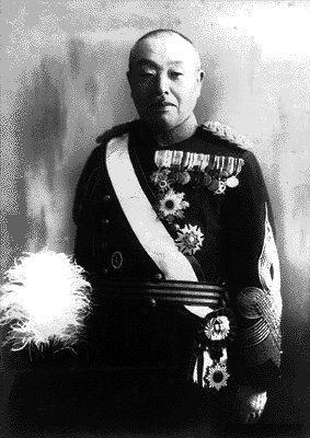 Japan’s Inspectorate General of Military Training Jōtarō Watanabe (陸軍教育総監・渡辺錠太郎, 1874–1936). General Watabane was among the victims of the February 26 Incident (二・二六事件).